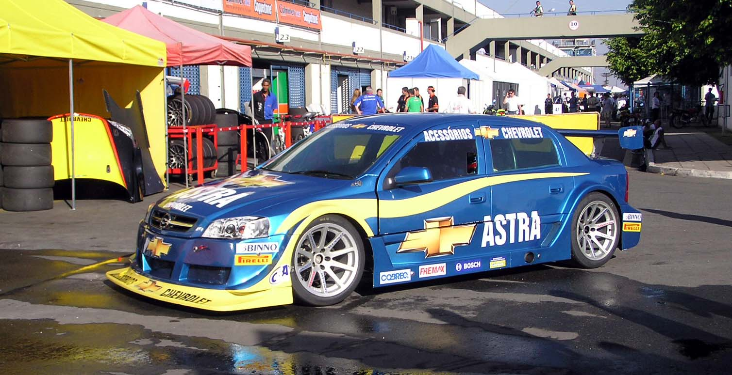 Stock Car Brasil Pace Car: Chevrolet Astra